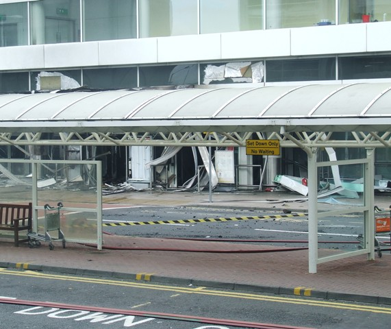 The Aftermath. The scene at Glasgow Airport main terminal 40 hours after a failed terrorist attack. The airport was back in business as usual at this time.